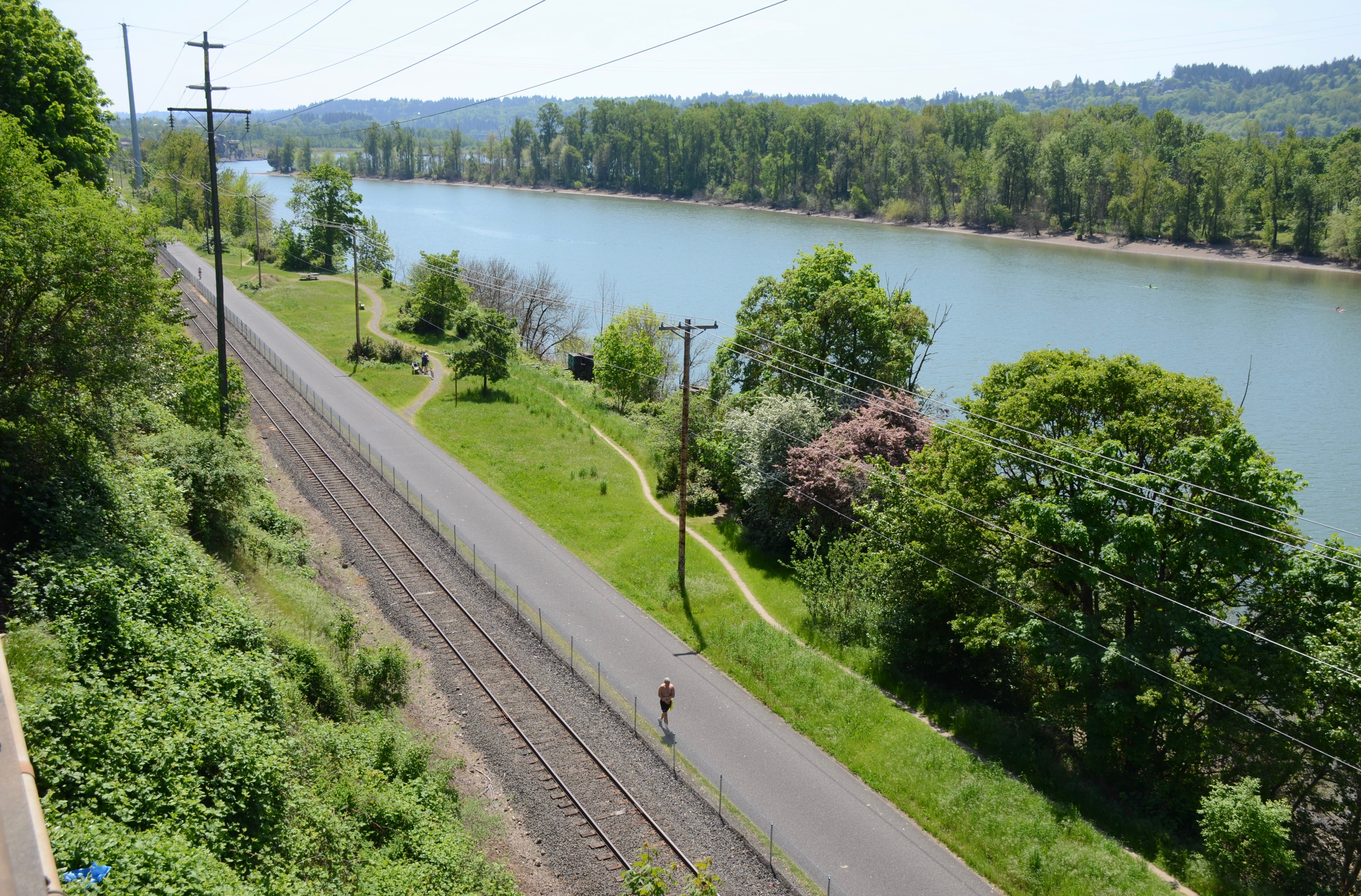 Portland, Oregon: The Oregon Pacific Railroad, the Springwater Corridor Trail, the Willamette River, and part of Ross Island, viewed from from Oregon Highway 99E (McLoughlin Blvd.), looking south.